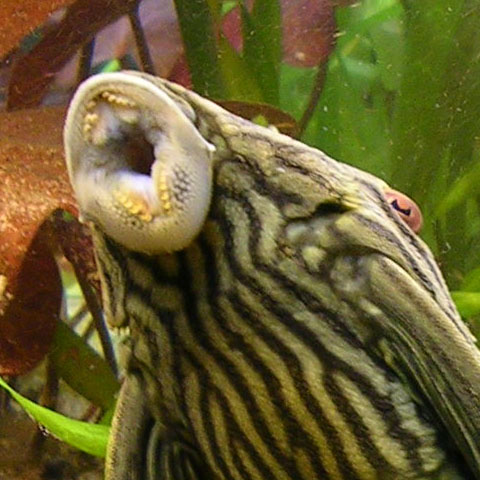 Picture of the mouth and teeth of Panaque nigrolineatus. Aquarium specimen, about 11 years old, 16 cm long. This fish has been identified as P. nigrolineatus from the Columbian/Venezuelan population by Panaque researcher Hirofumi Nonogaki.